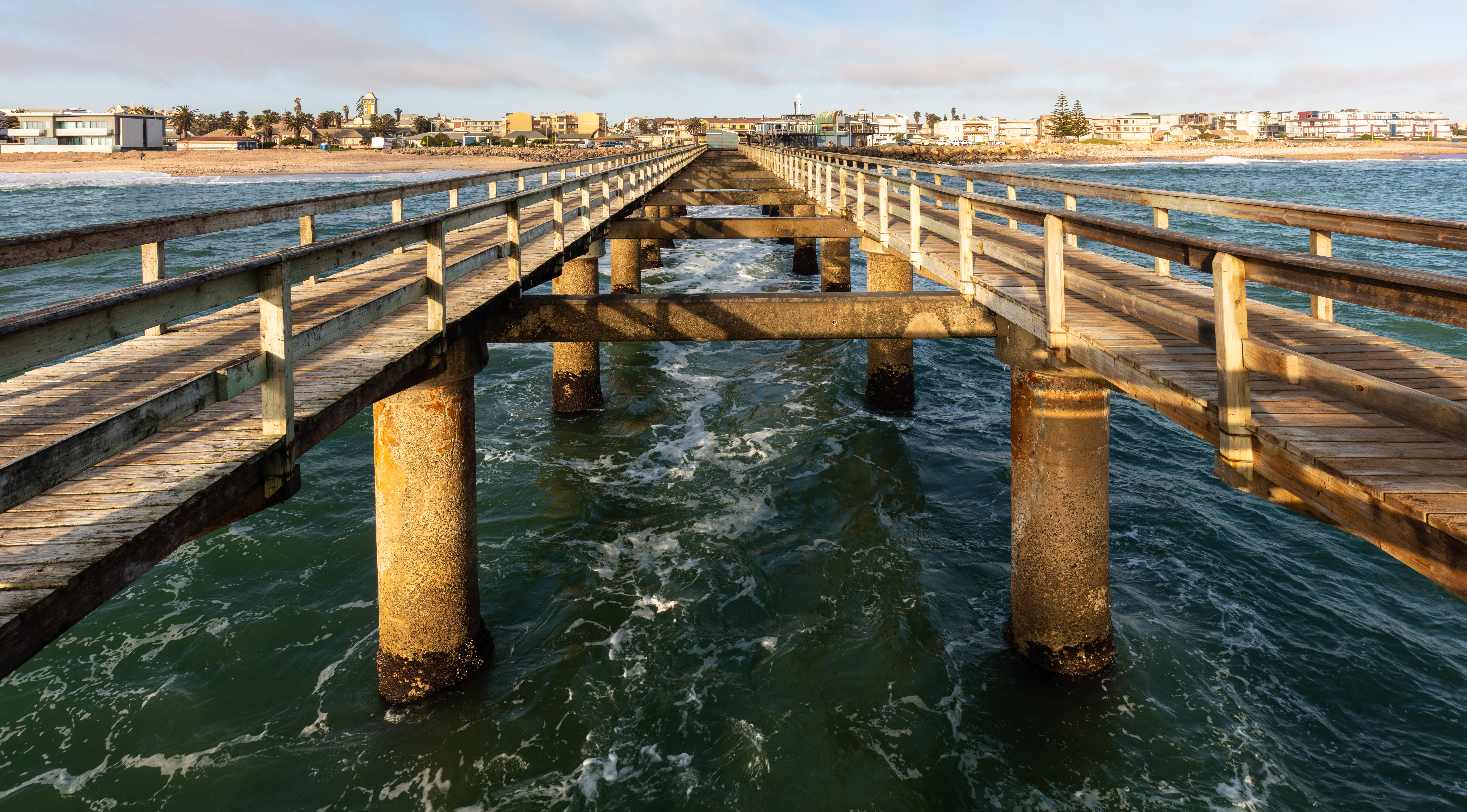 Jetty, Swakopmund, Namibia